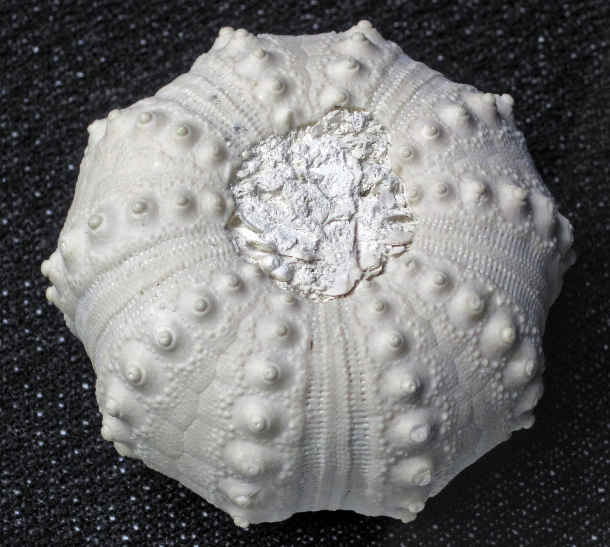 Phyllacanthus mortoni fossil sea urchin (Crystal River Formation, Eocene; northern Florida, USA) 1